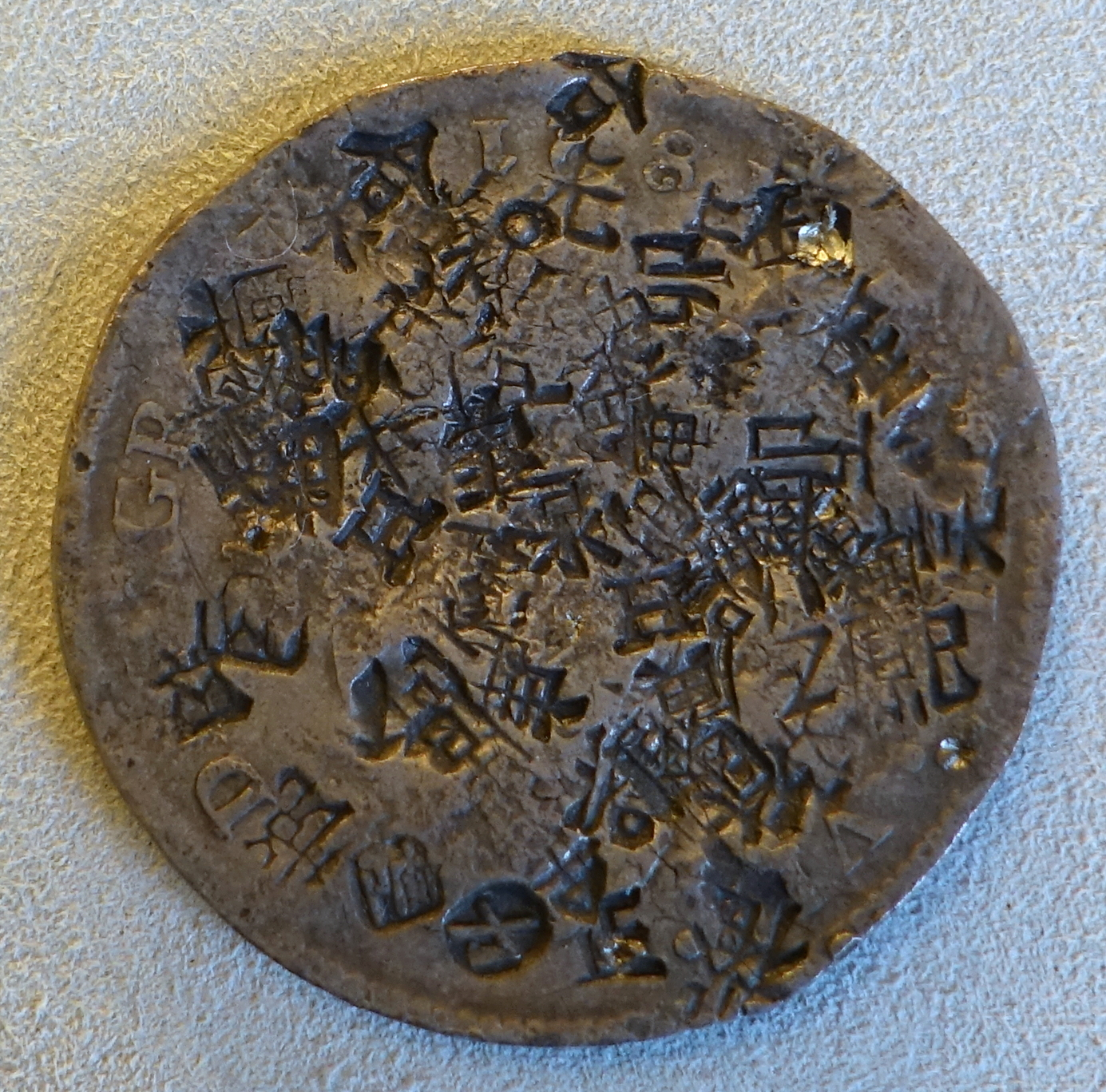 Exhibit in the Bode-Museum, Berlin, Germany. This work is in the public domain because the artist died more than 100 years ago.